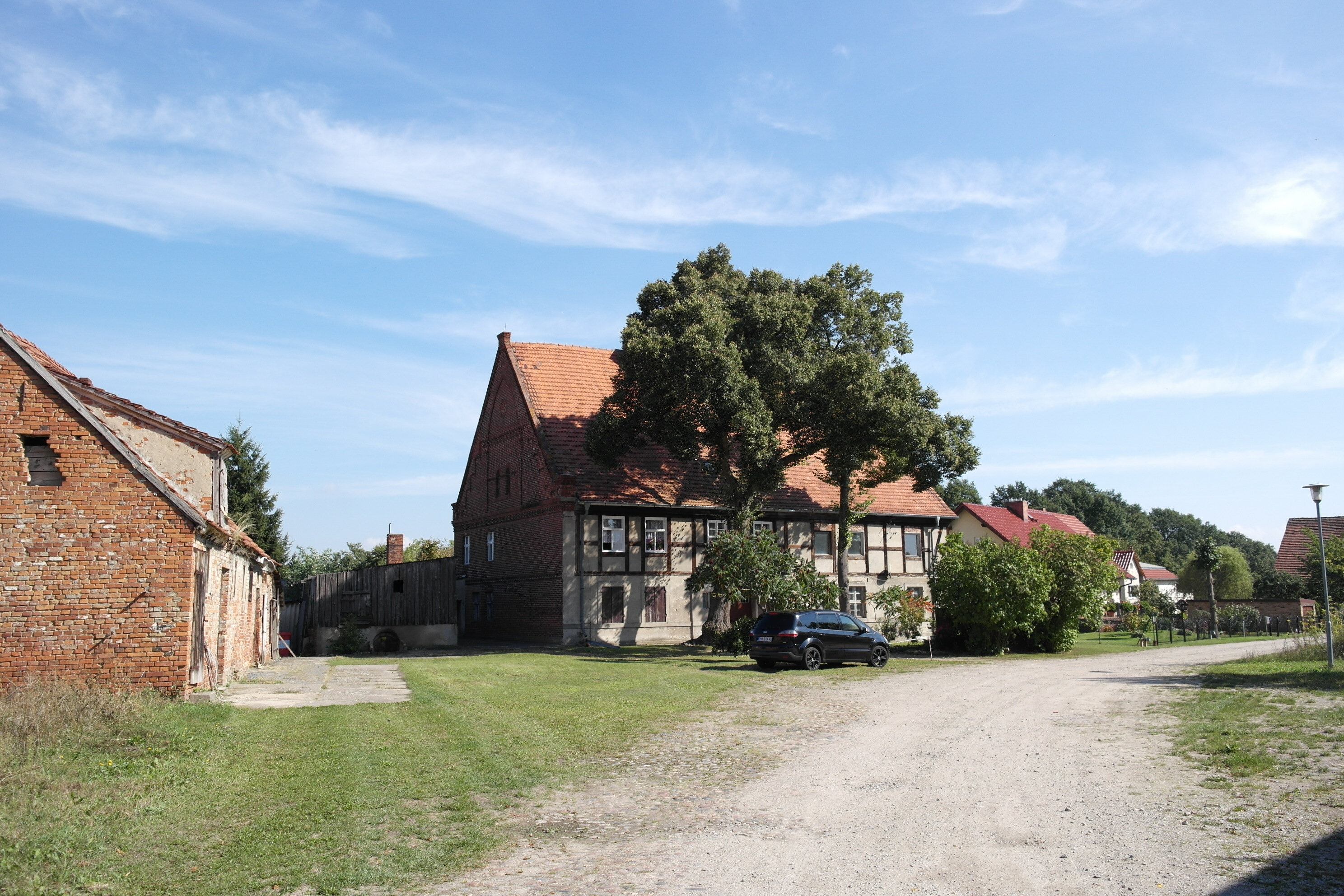 Manor house "Schwedenhaus" in the village Böhne (part of city Rathenow), cultural heritage